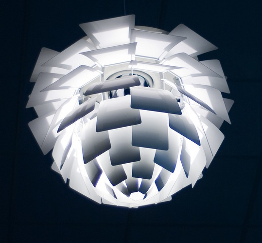 PH Artichoke lamp designed by Poul Henningsen